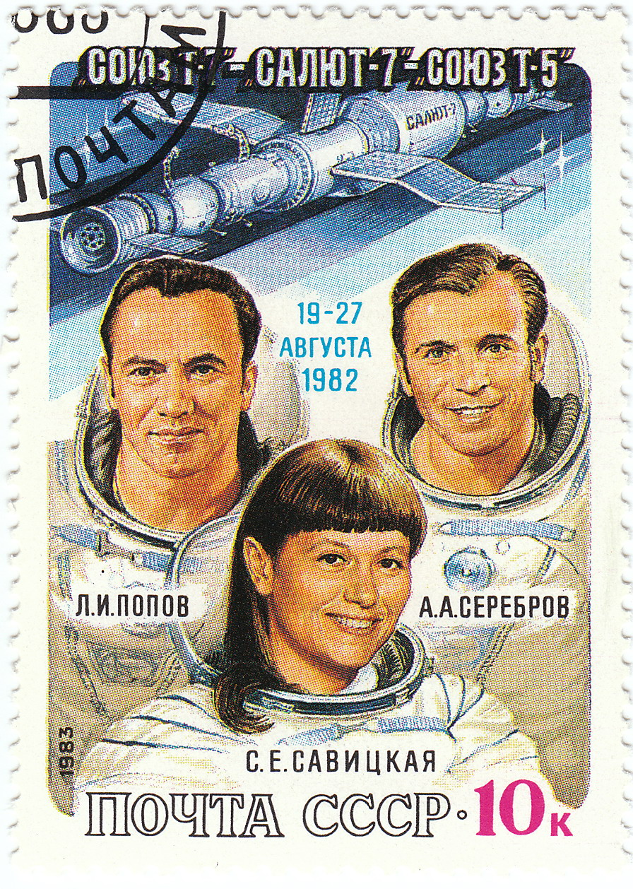 Leonid Popov, Svetlana Savitskaya, and Aleksandr Serebrov on a 1983 stamp of the USSR